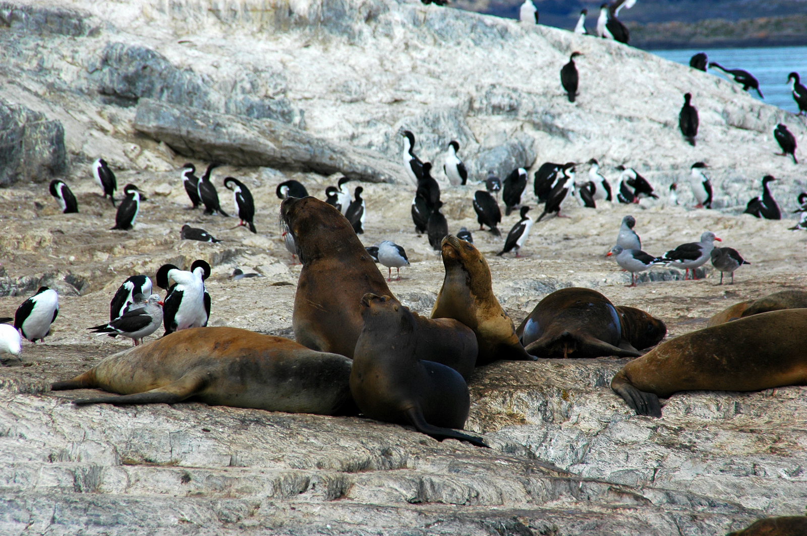 South American Sea Lions (Otaria flavescens) Imperial Shags (Phalacrocorax atriceps) Dolphin Gulls (Larus scoresbii) Photographed on an islet in the Beagle Channel.